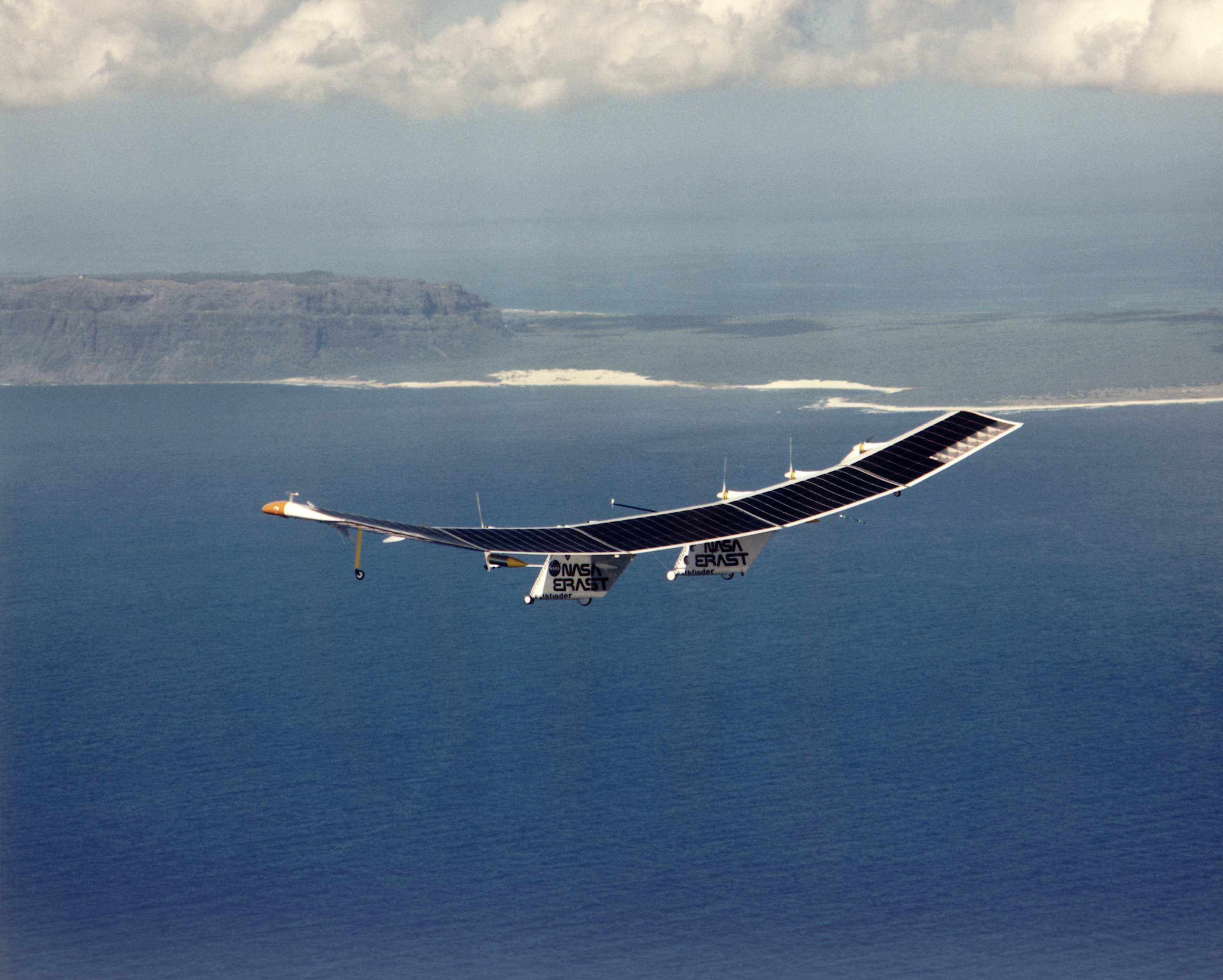 Pathfinder, NASA's solar-powered, remotely-piloted aircraft is shown while it was conducting a series of science flights to highlight the aircraft's science capabilities while collecting imagery of forest and coastal zone ecosystems on Kauai, Hawaii.